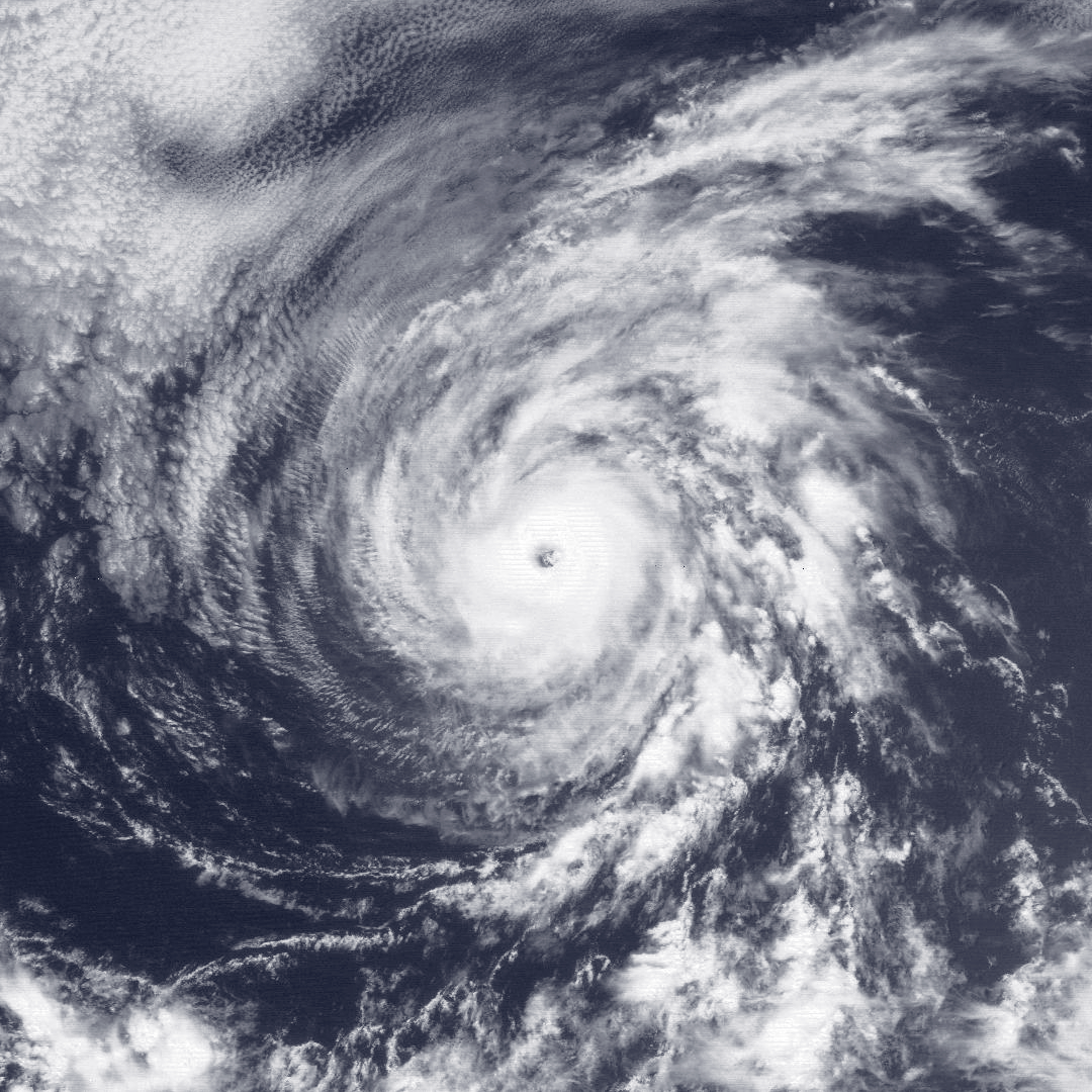 Hurricane Fefa at peak intensity in the eastern Pacific Ocean on August 1, 1991